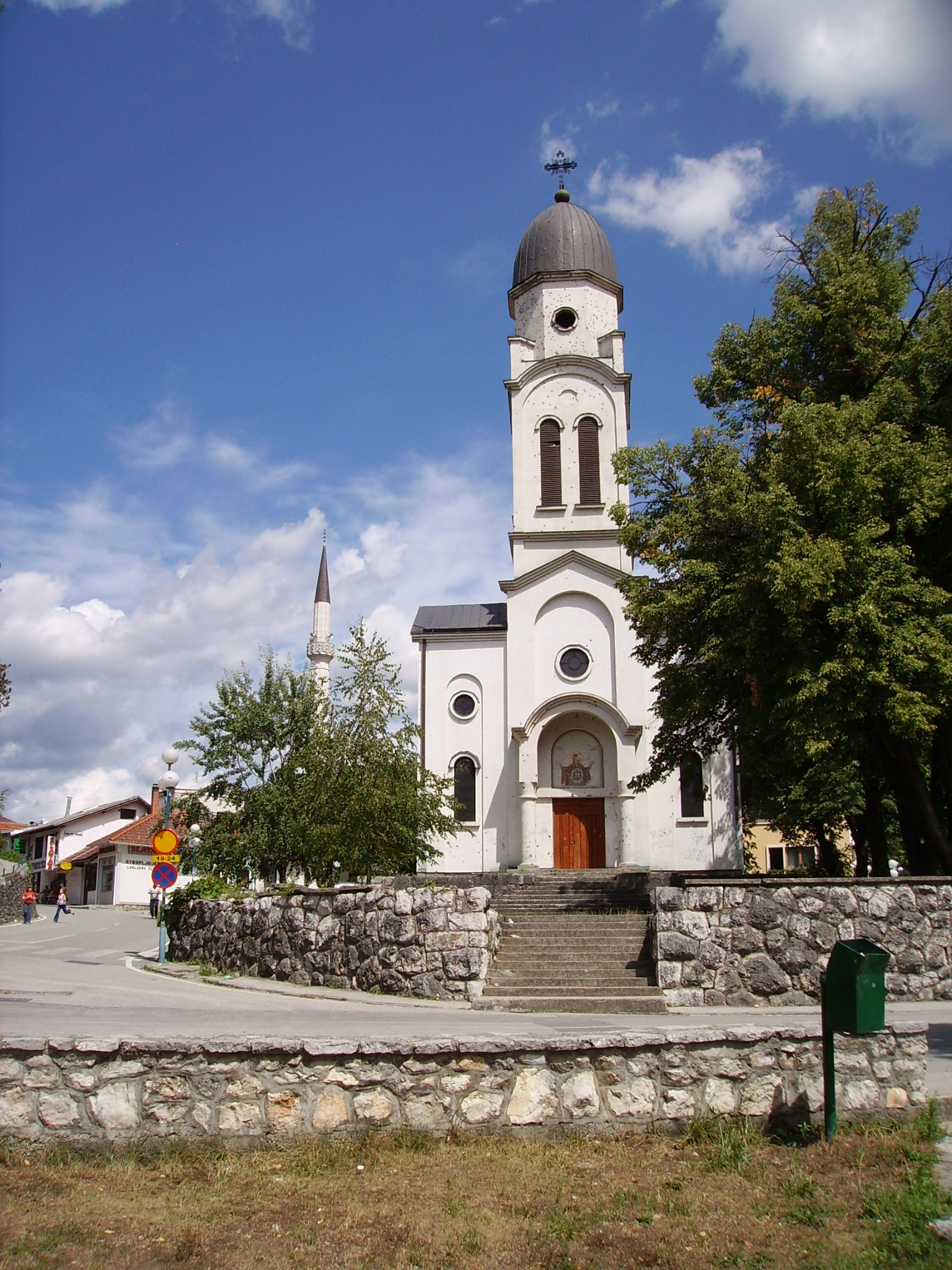 Serbian Orthodox Church and Mosque in Bosanska Krupa, Western Bosnia.